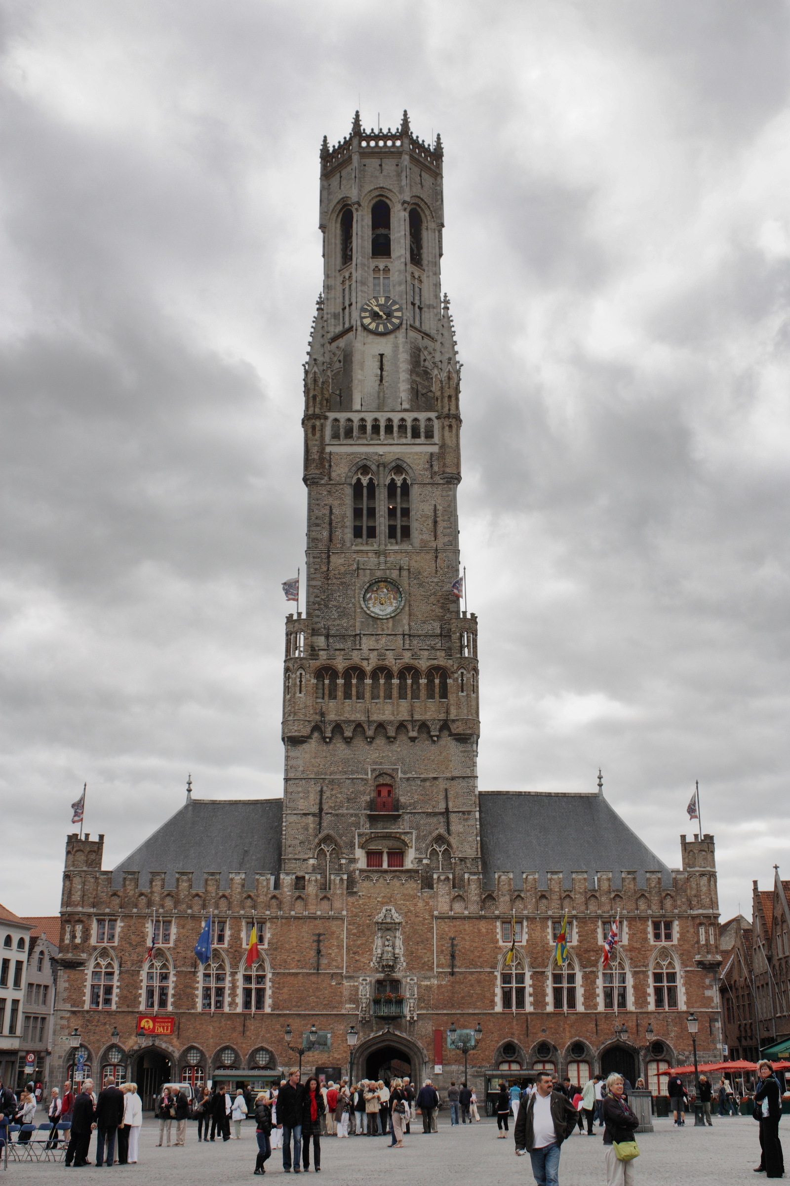 HDR image of the Belfort in Bruges, Belgium